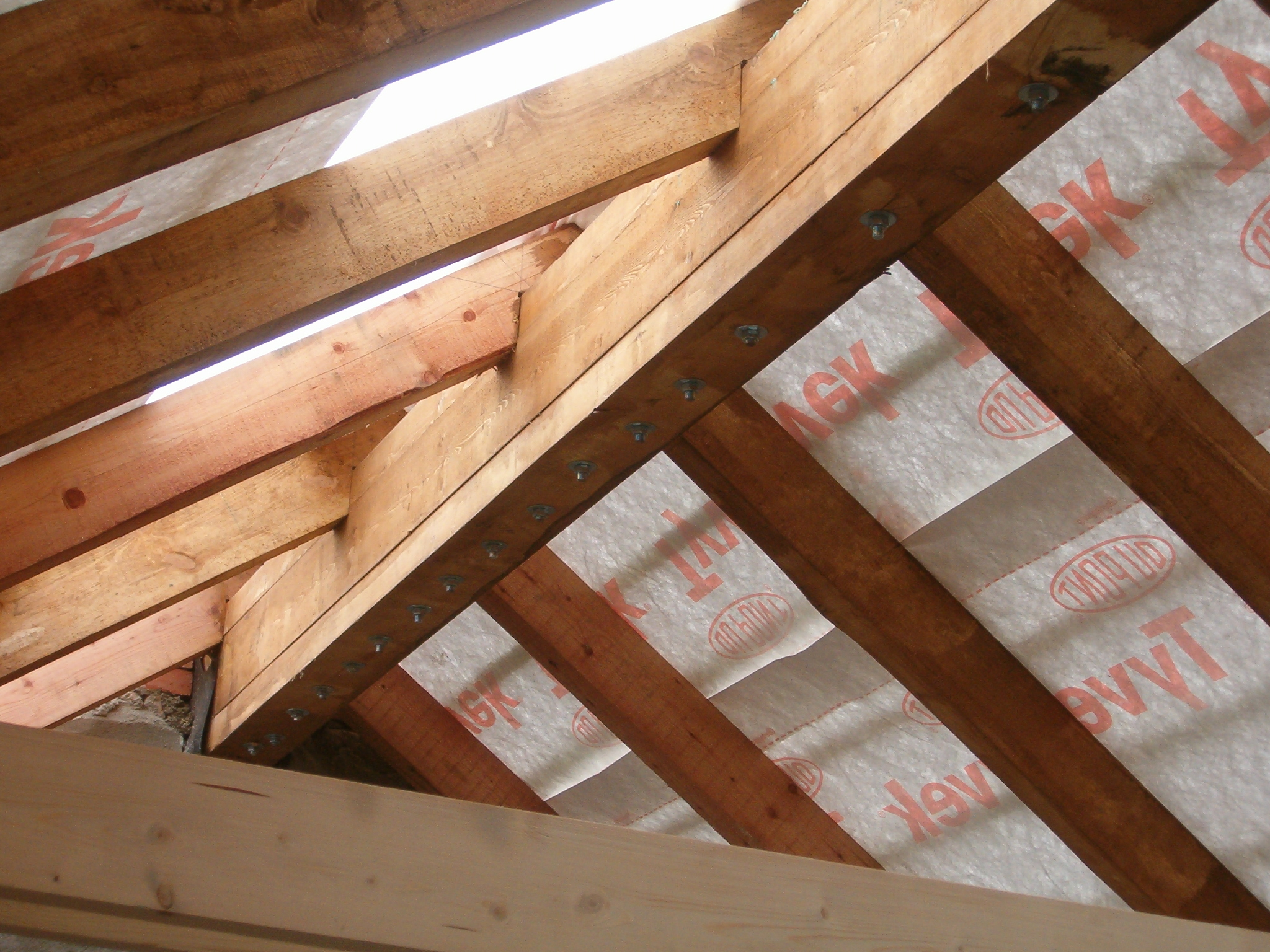 rooftree/ridge purlin